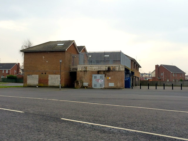 This block of shops, the majority of which are unoccupied, sits in the middle of the Moyraverty neighbourhood of Craigavon, one of the last to built (1975-7) as part of the New Town scheme. Some of the complex, which would be in the foreground of the image, has been demolished in recent times.